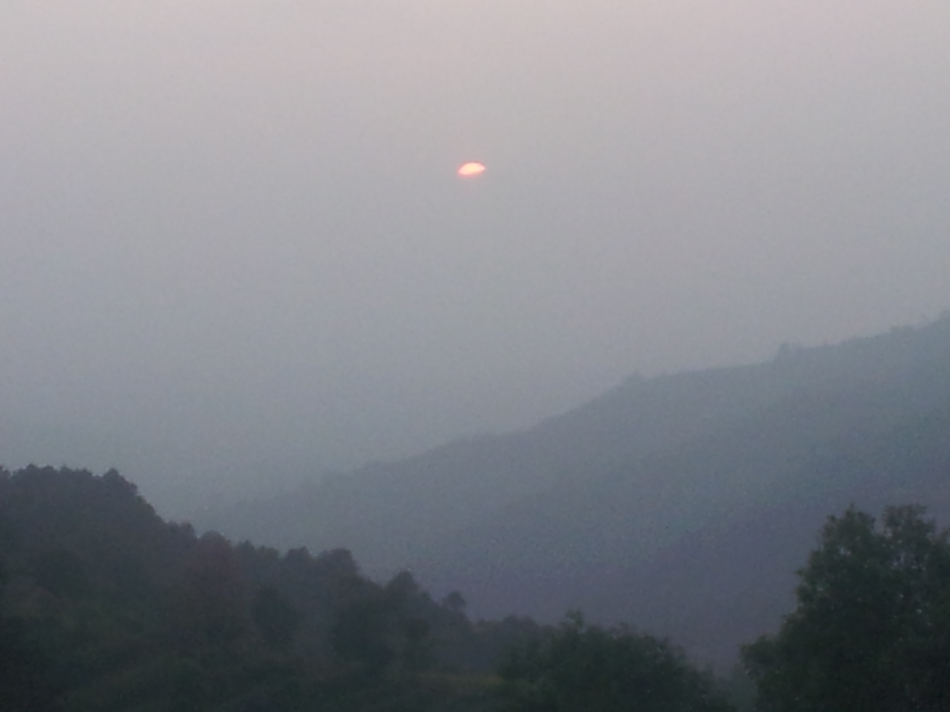 Sun shining seen from bhotechaur